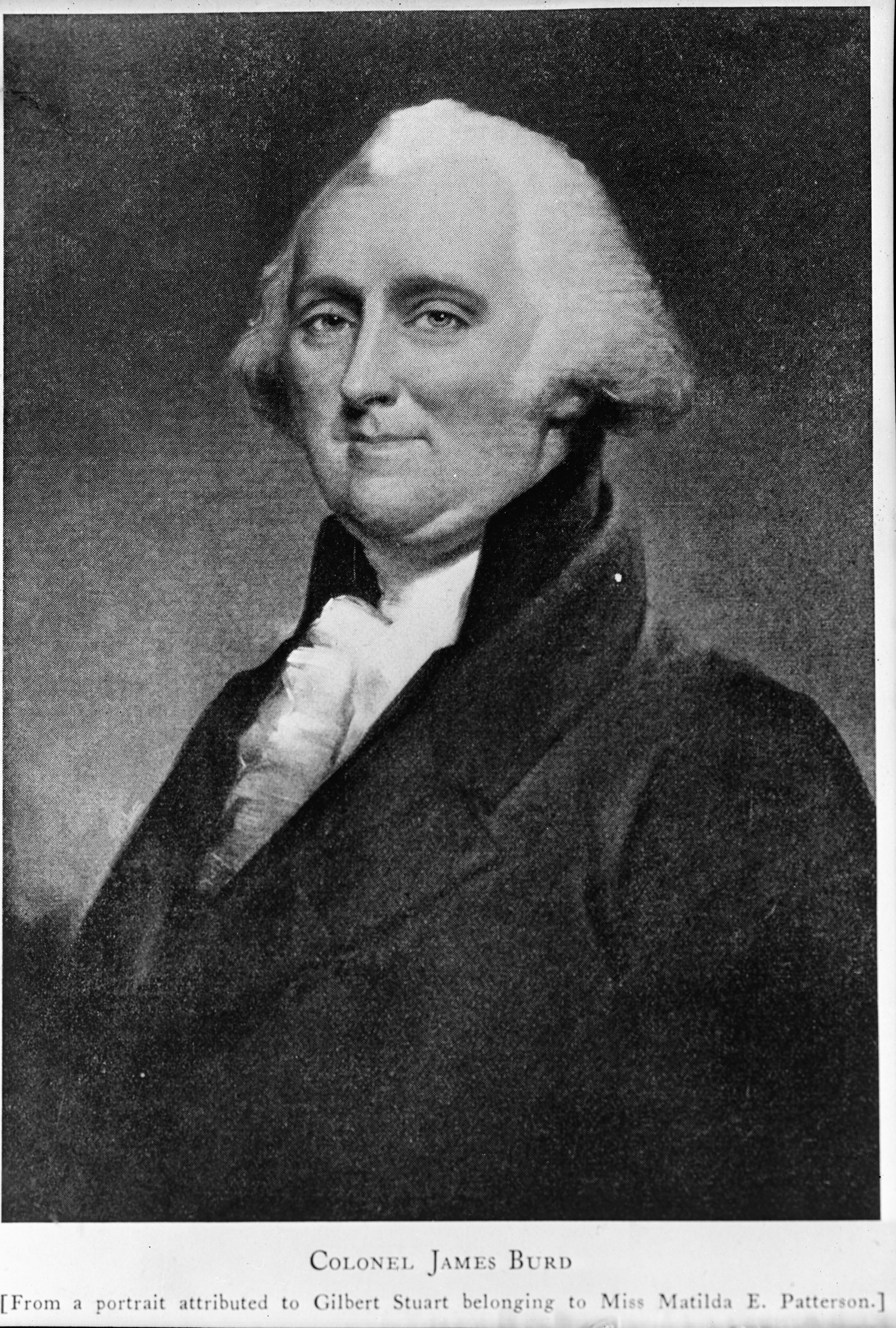 Portrait of Colonel James Burd of Highspire, Pennsylvania attributed to Gilbert Stuart. Important figure in the French and Indian Wars in Pennsylvania, less so during the American Revolution. This is a cropped version of our File:Historic American Buildings Survey, 1935 Photocopy, PORTRAIT OF COL. BURD. - Tinian, Highspire, Dauphin County, PA HABS PA,22-HISPI.V,1-3.tif